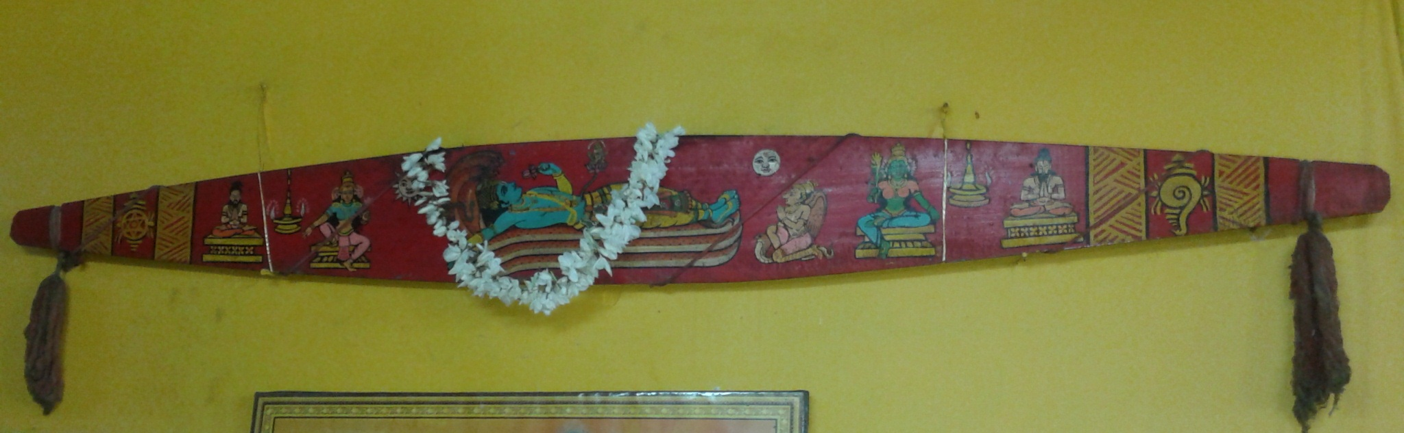 Onavillu